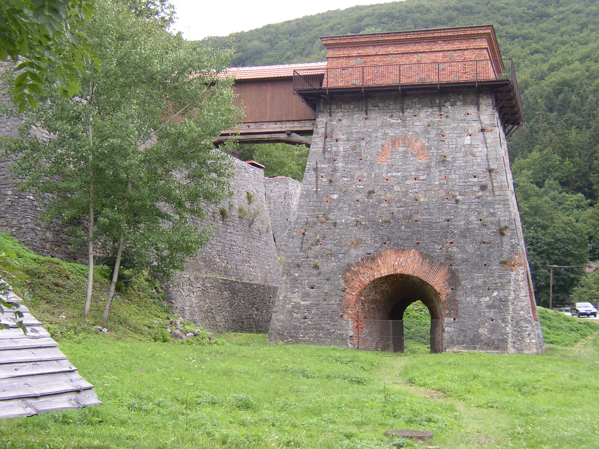 An 18th century charcoal smelting furnace near Adamov, Czech Republic.